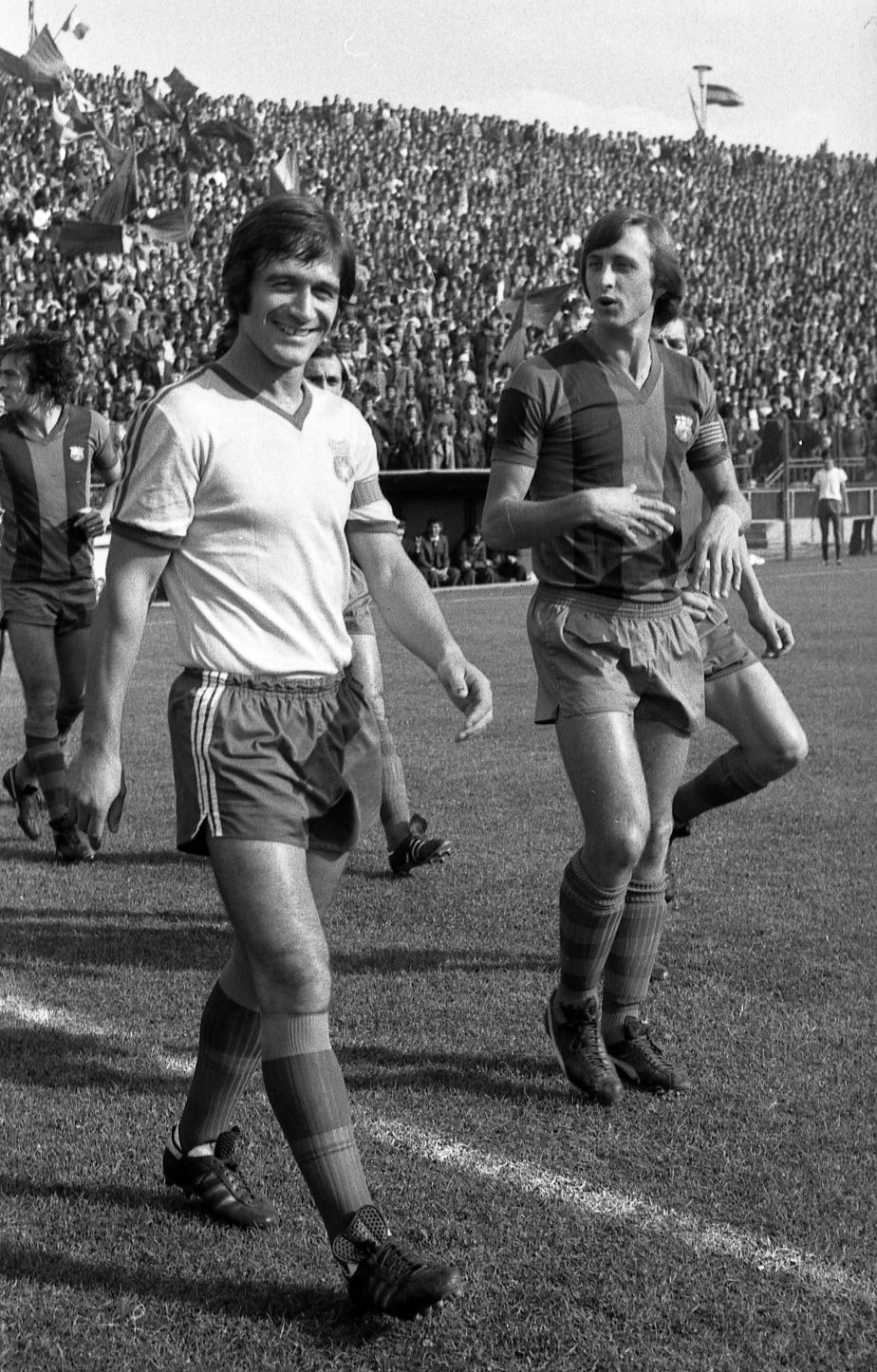 Ion Dumitru and Johan Cruyff in Bucharest